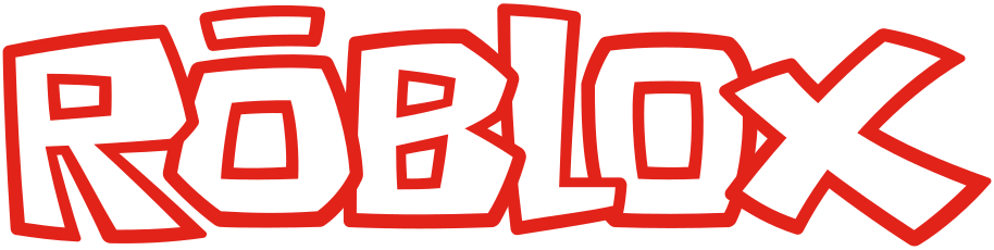 new roblox logo